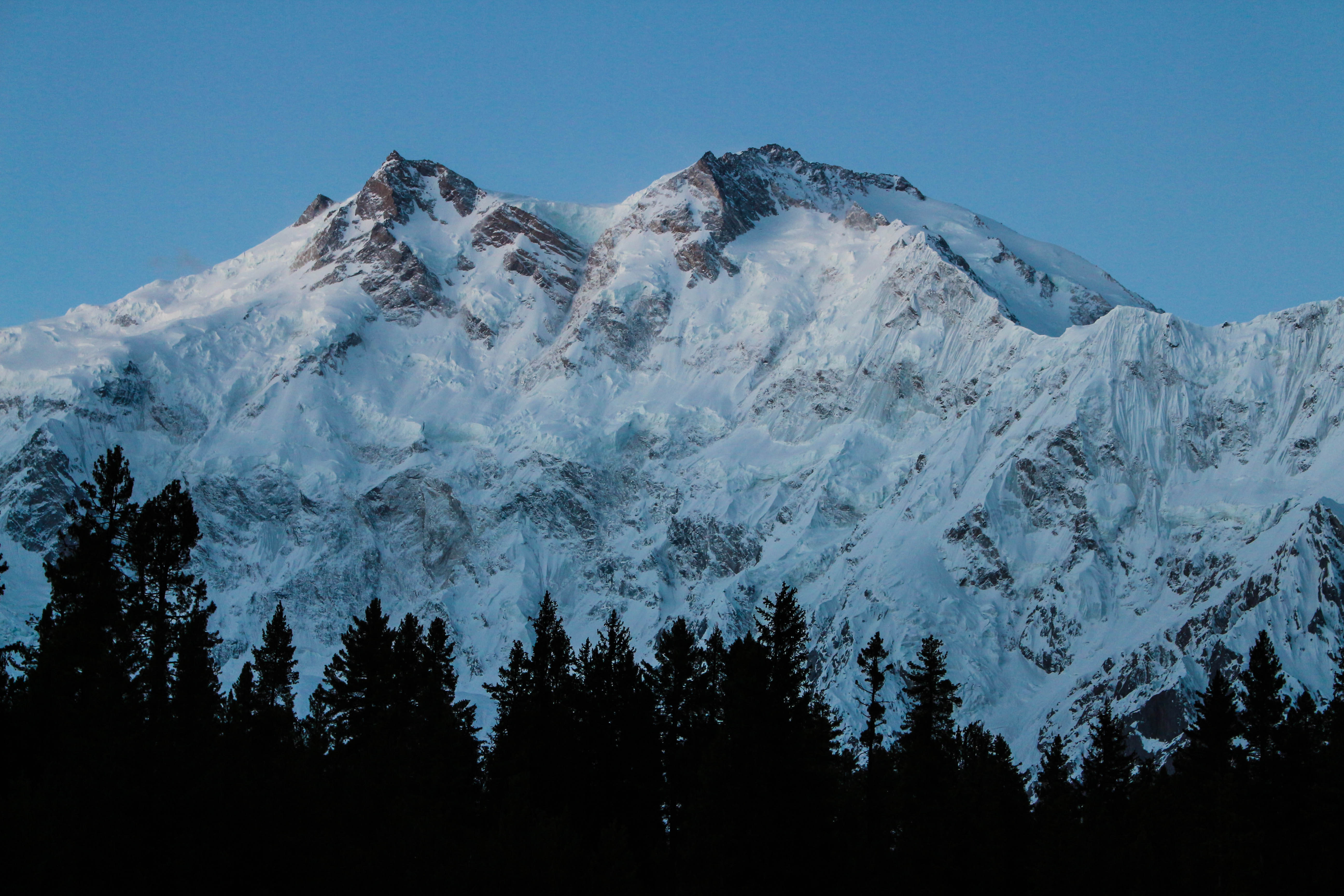 Nanga Parbat seen from Fairy Meadows